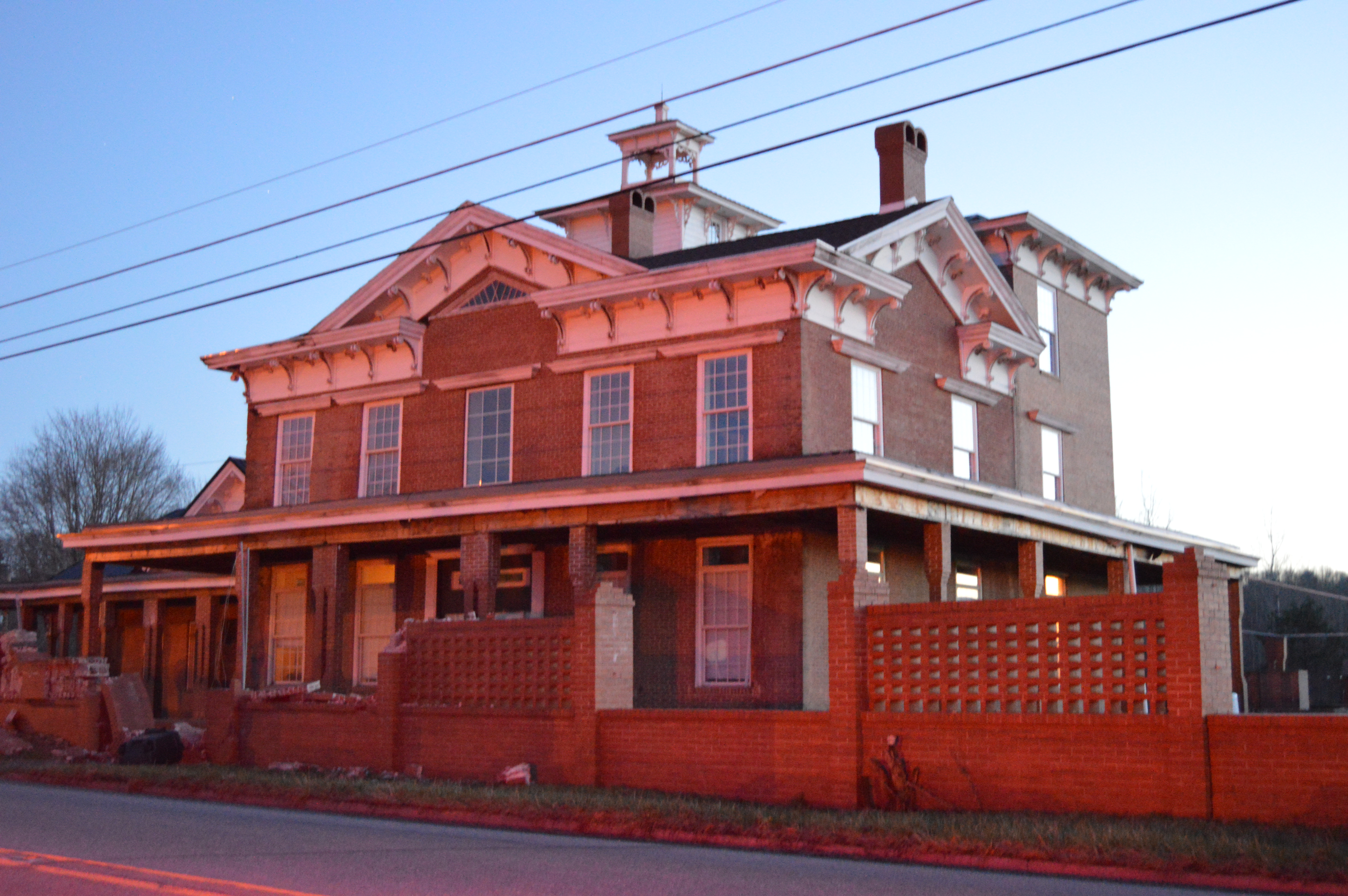 Front and northern side of the Irvin-Patchin House, located on the western side of Main Street (U.S. Route 219) in Burnside, Pennsylvania, United States. Built in 1850, it is listed on the National Register of Historic Places.